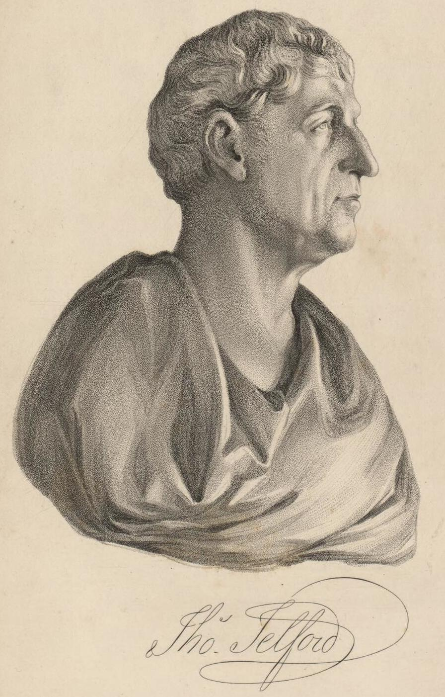 A portrait from the Welsh Portrait Collection at the National Library of Wales. Depicted person: Thomas Telford – Scottish civil engineer, architect and stonemason